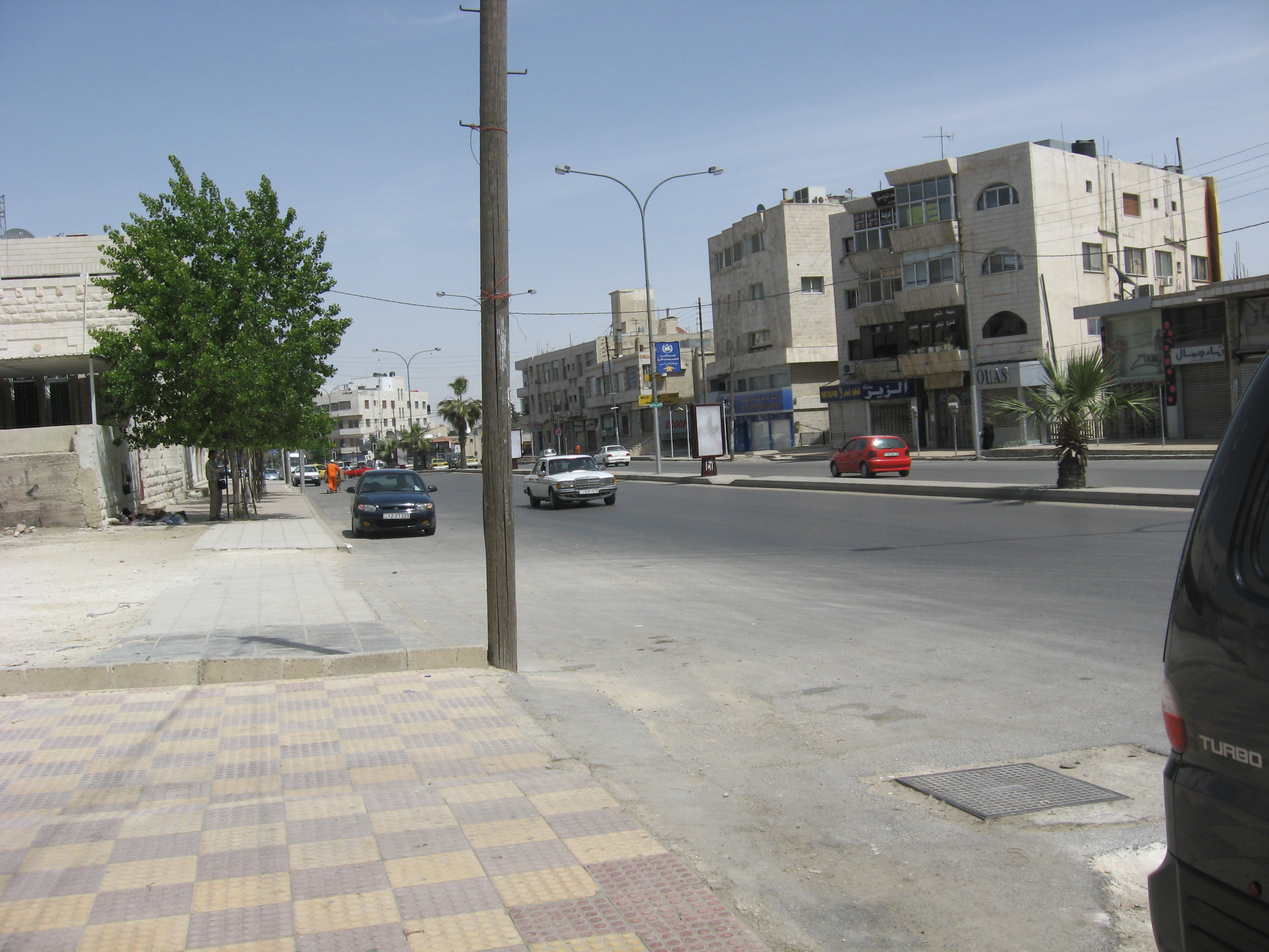 Wadi Al Seer main street — in Jordan. April 2008.